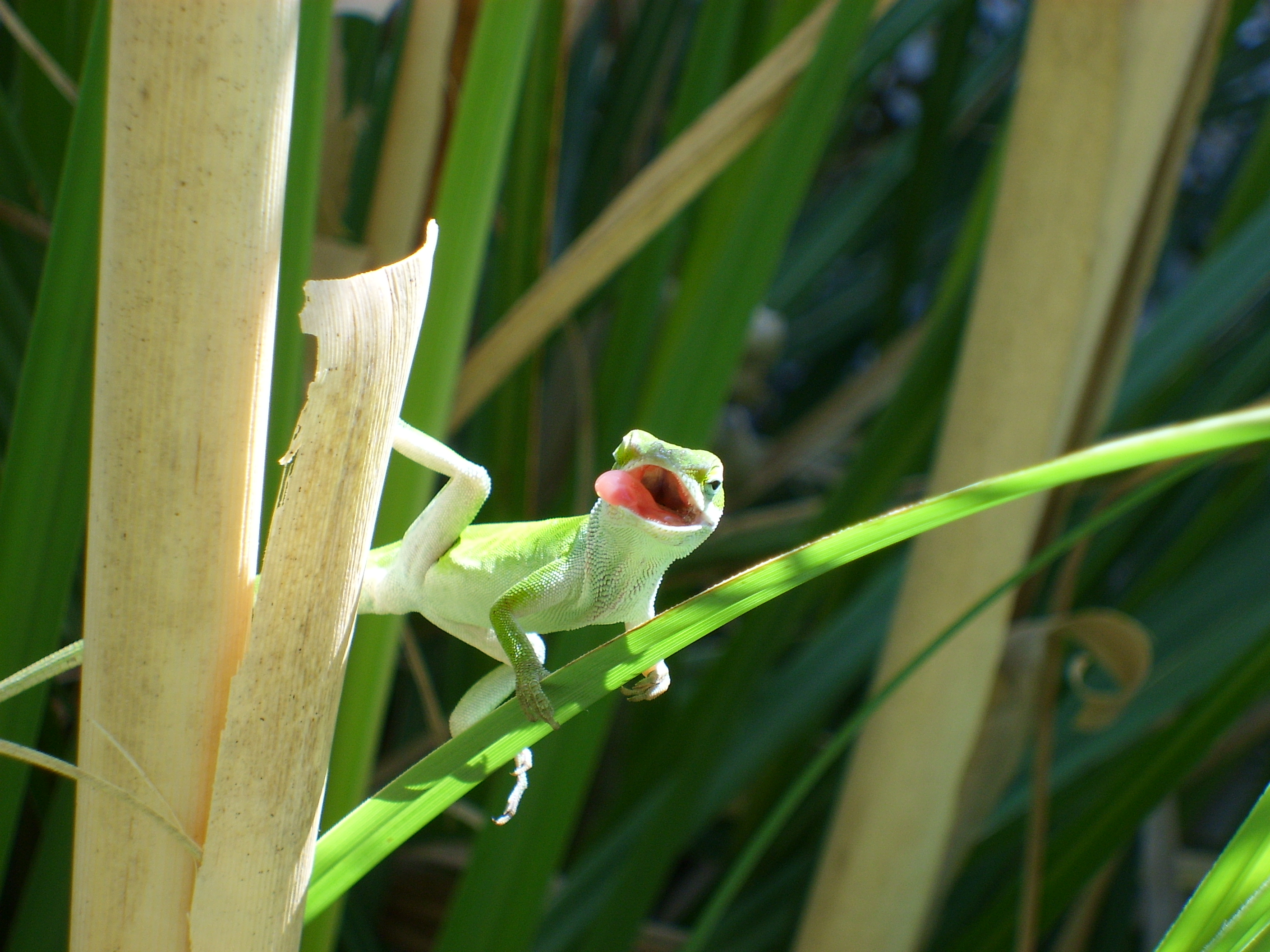 Carolina anole (Anolis carolinensis), taken at Holden Beach, NC